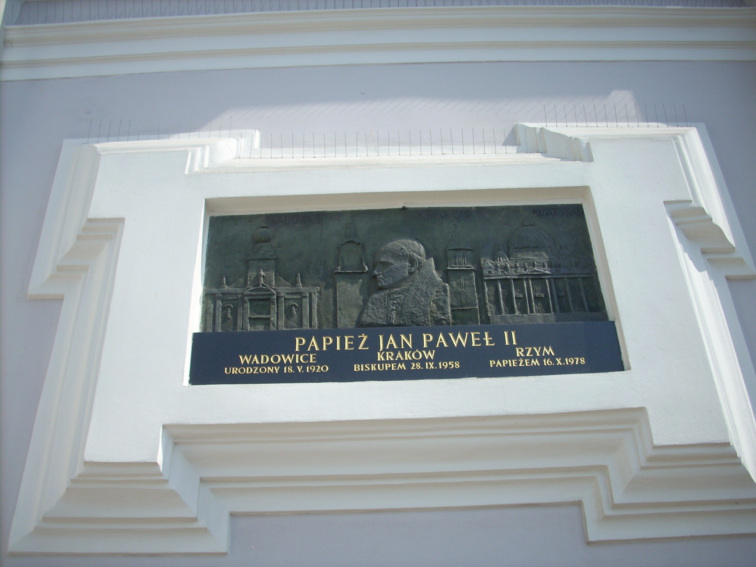 Blackboard with info about John Paul II.